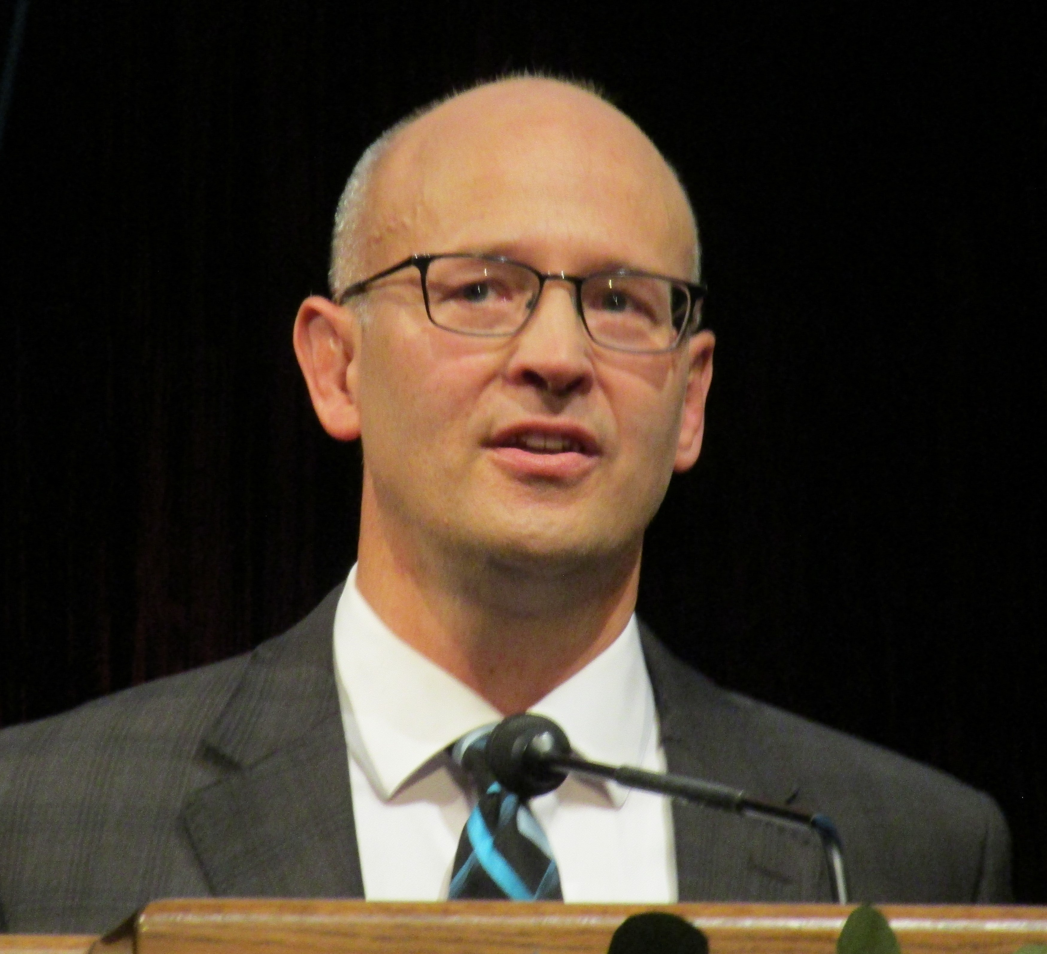 Randal W. Beard at BYU giving his "distinguished faculty lecture" on self-flying vehicles.